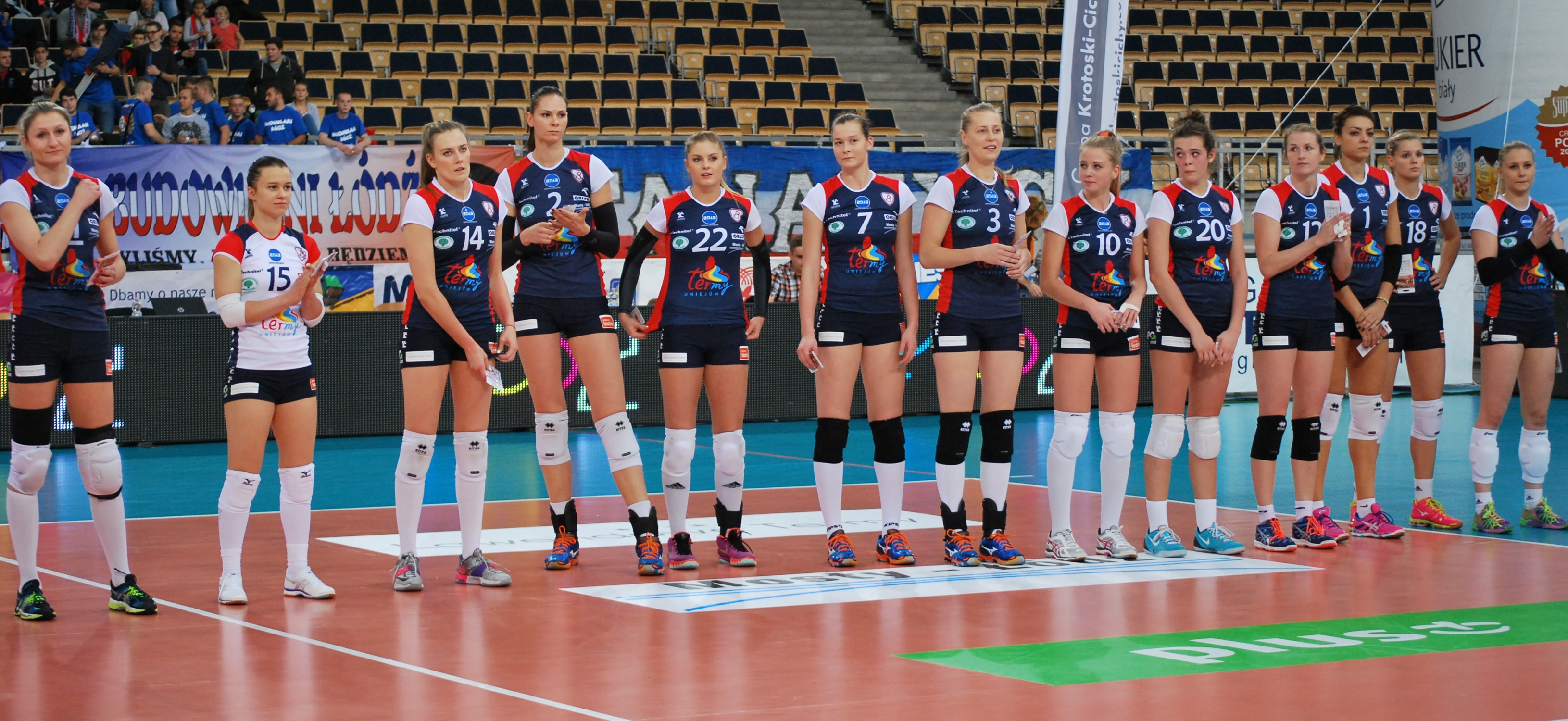 Budowlani Łódź 2015-2016